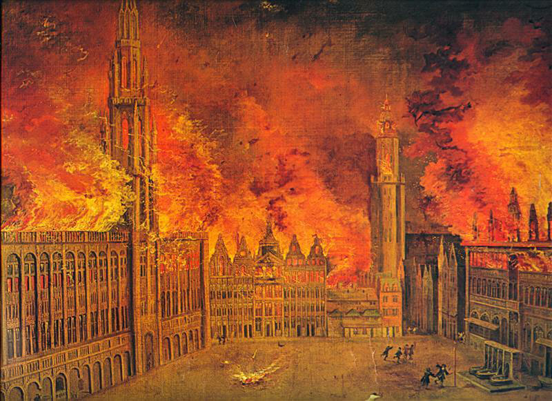 Rendering of the Grote Markt of Brussels during the fire provoked by the bombing of the city by French troops (13-15 august 1695). Prominent buildings on fire are the town hall (left), the belfry (centre) and the Broodhuis (right).